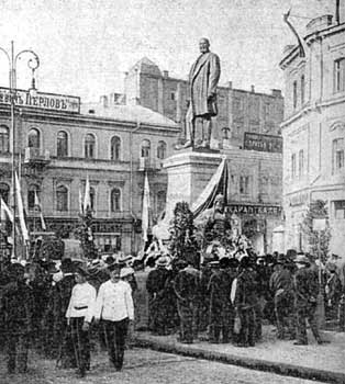 Stolypin monument opening ceremony in Kyiv